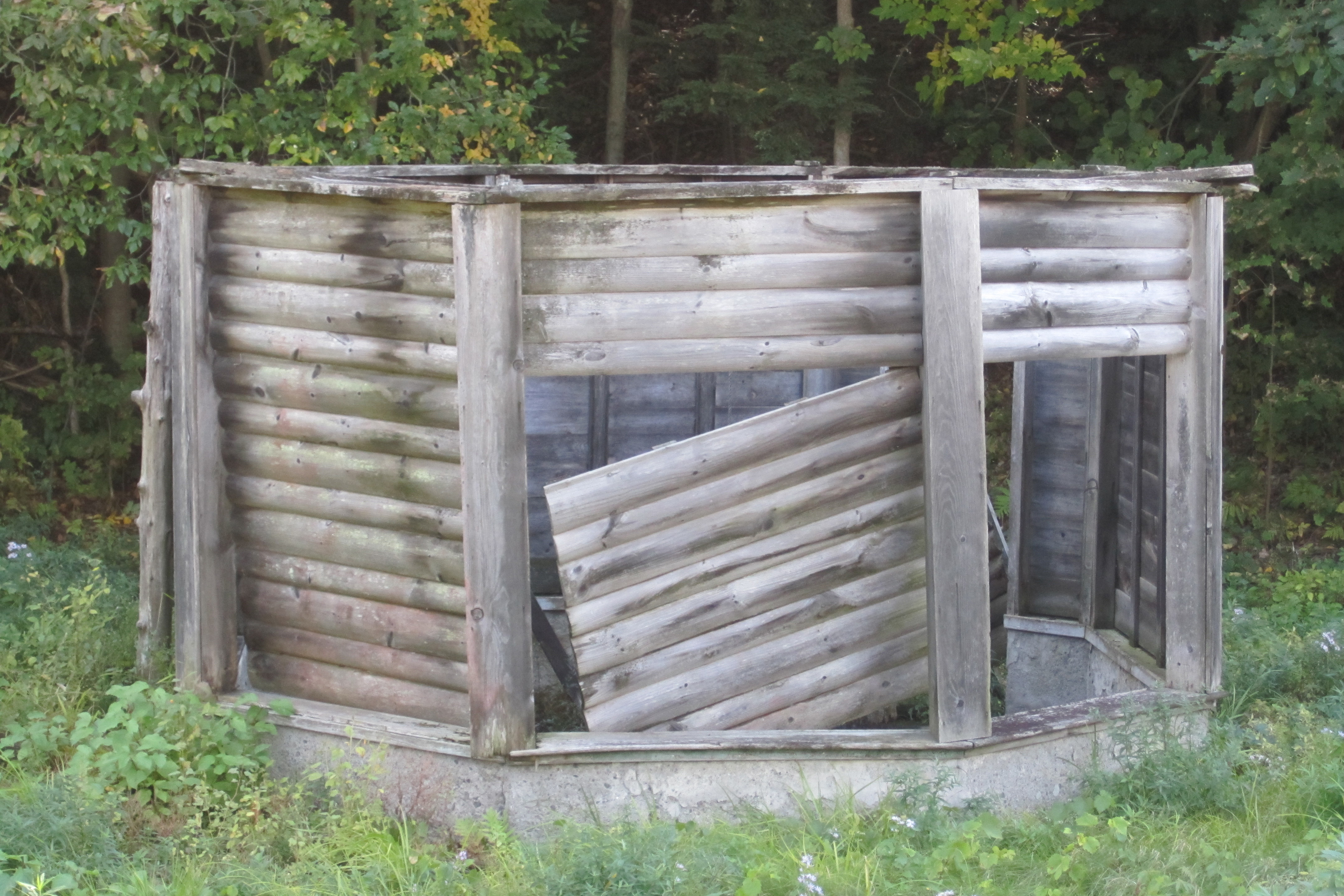 Ruins of spring house, White Sulphur Spring Hotel, Stillwater, New York, September 2012.